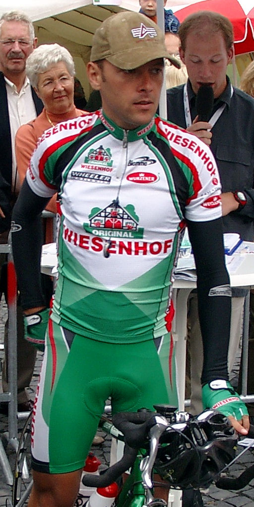 Enrico Poitschke